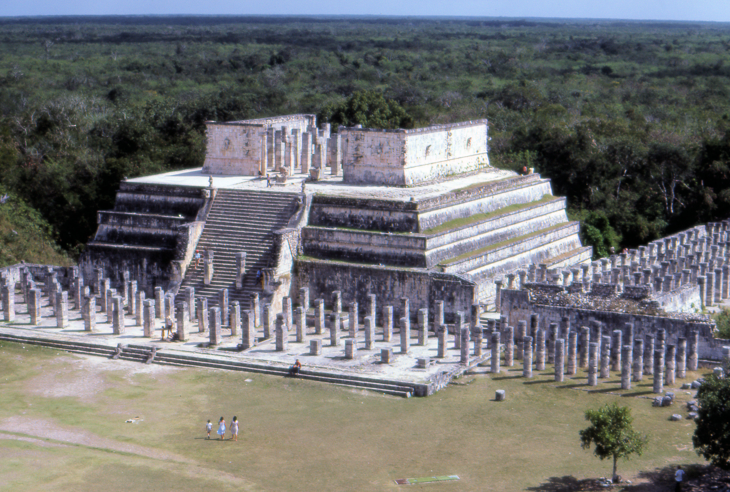 Temple of the Warriors, Chichen Itza. Maya Ruins (Yucatan Peninsula)